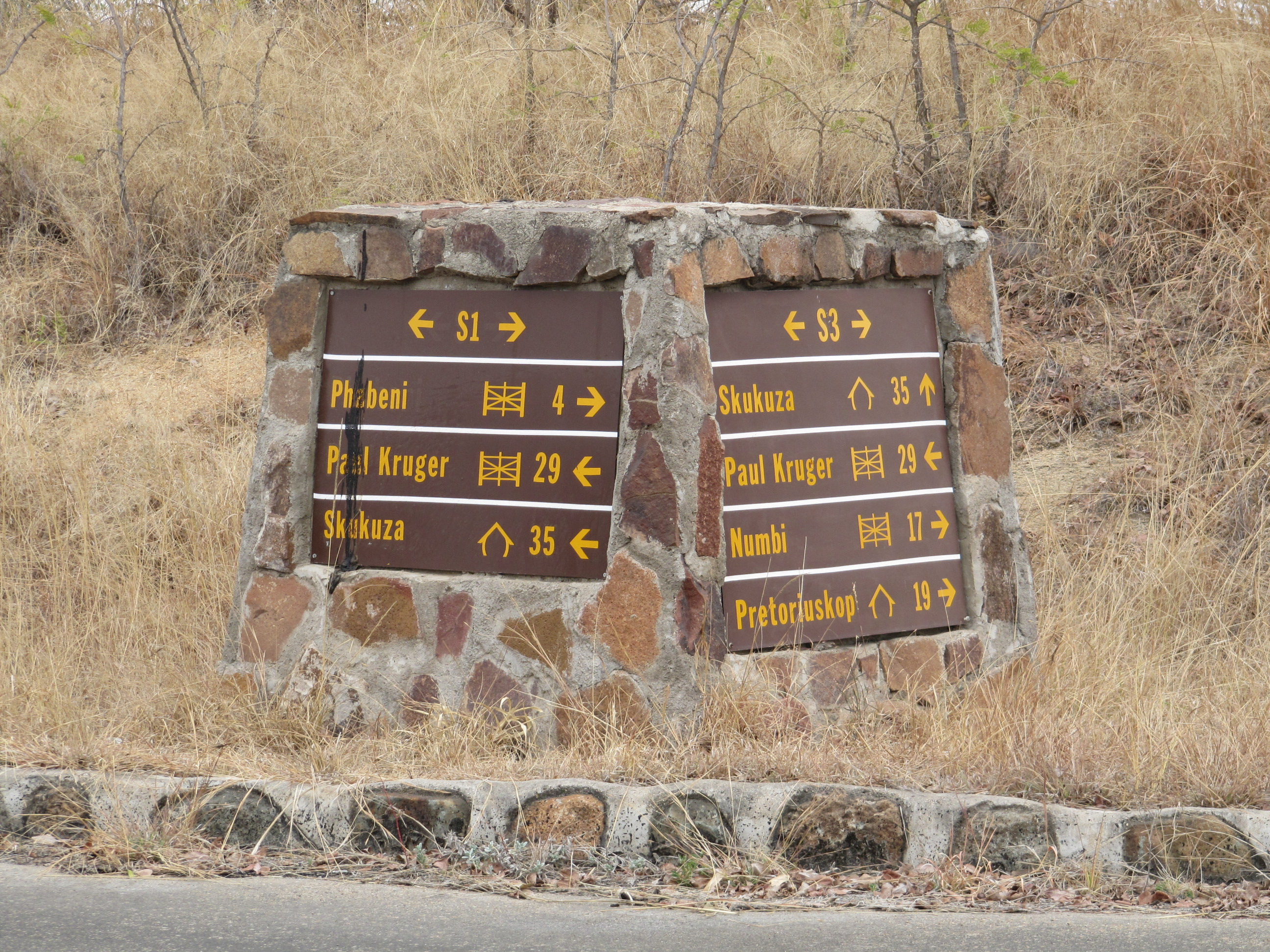 Signpost in the Kruger National Park, South Africa.